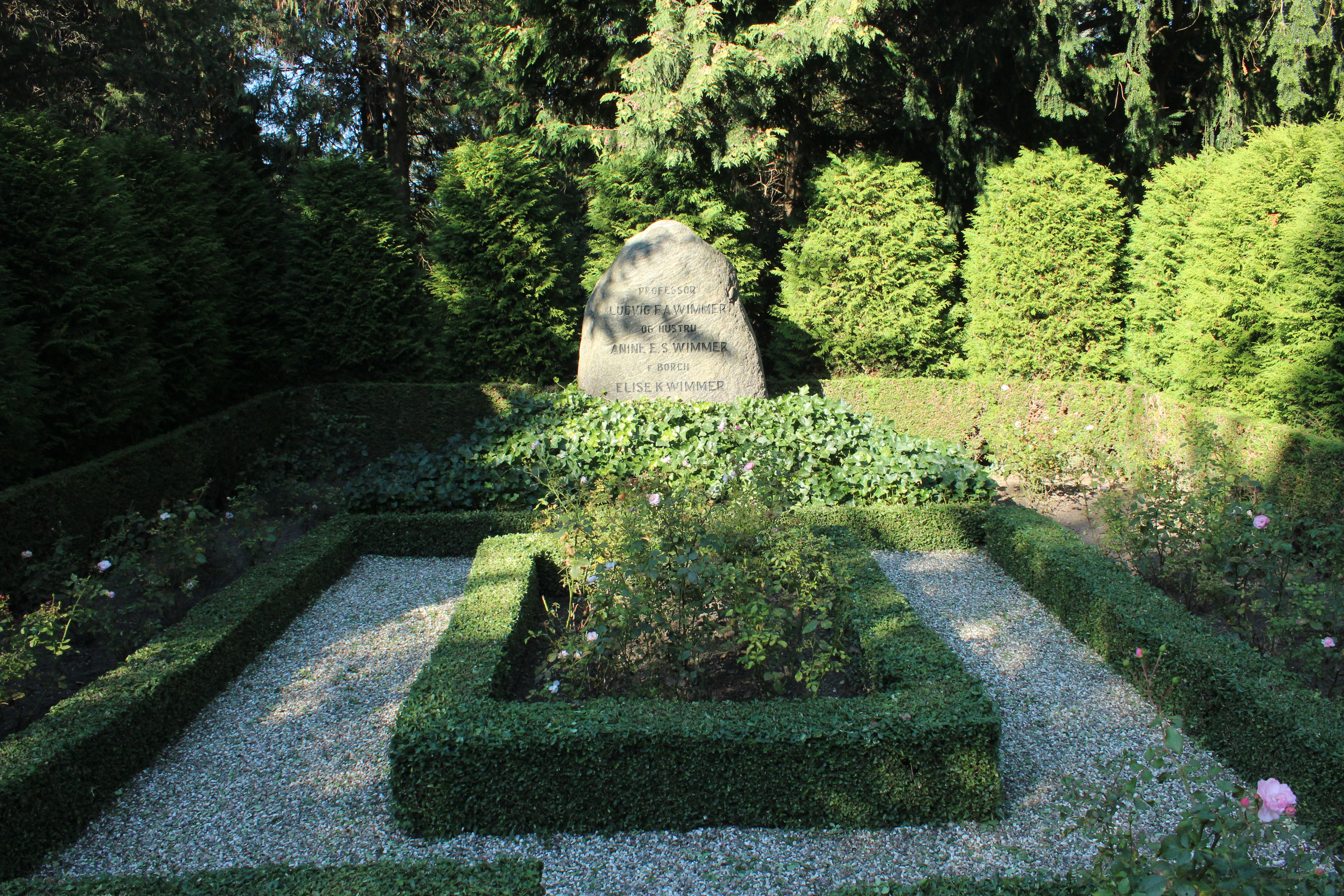 Grave of Danish linguist and runologist at Bispebjerg cemetery